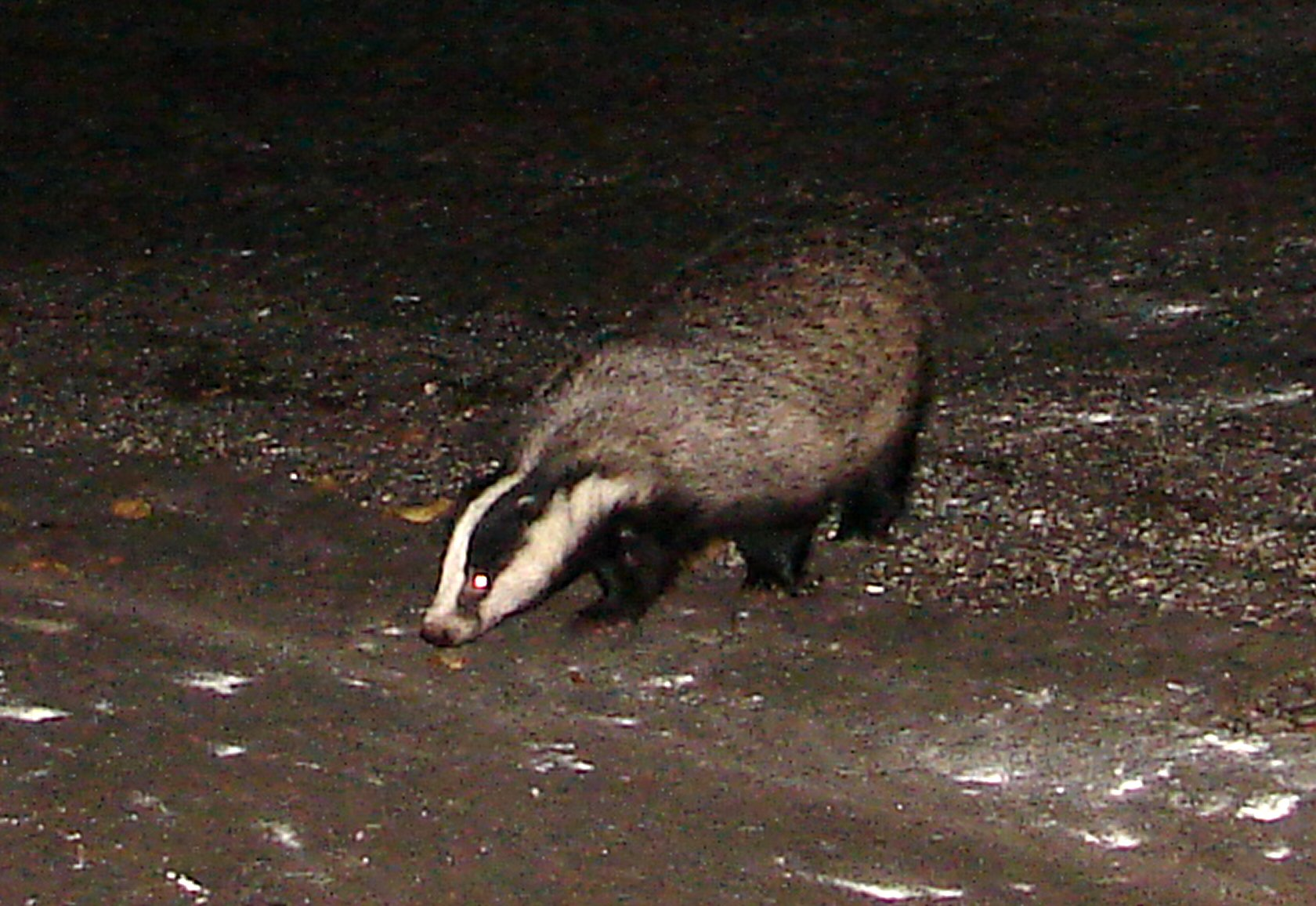 European Badger foraging